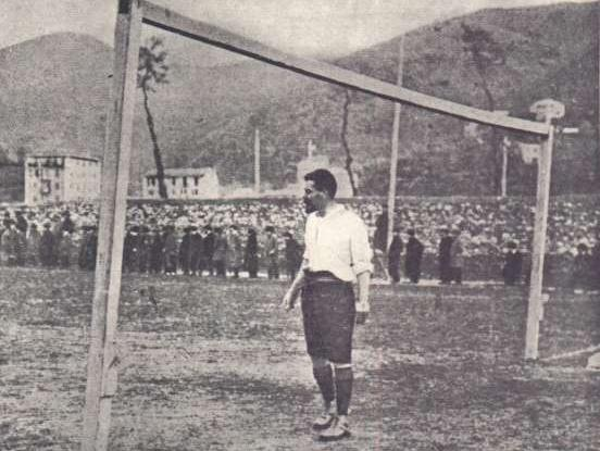 James Richardson Spensley from 1900.